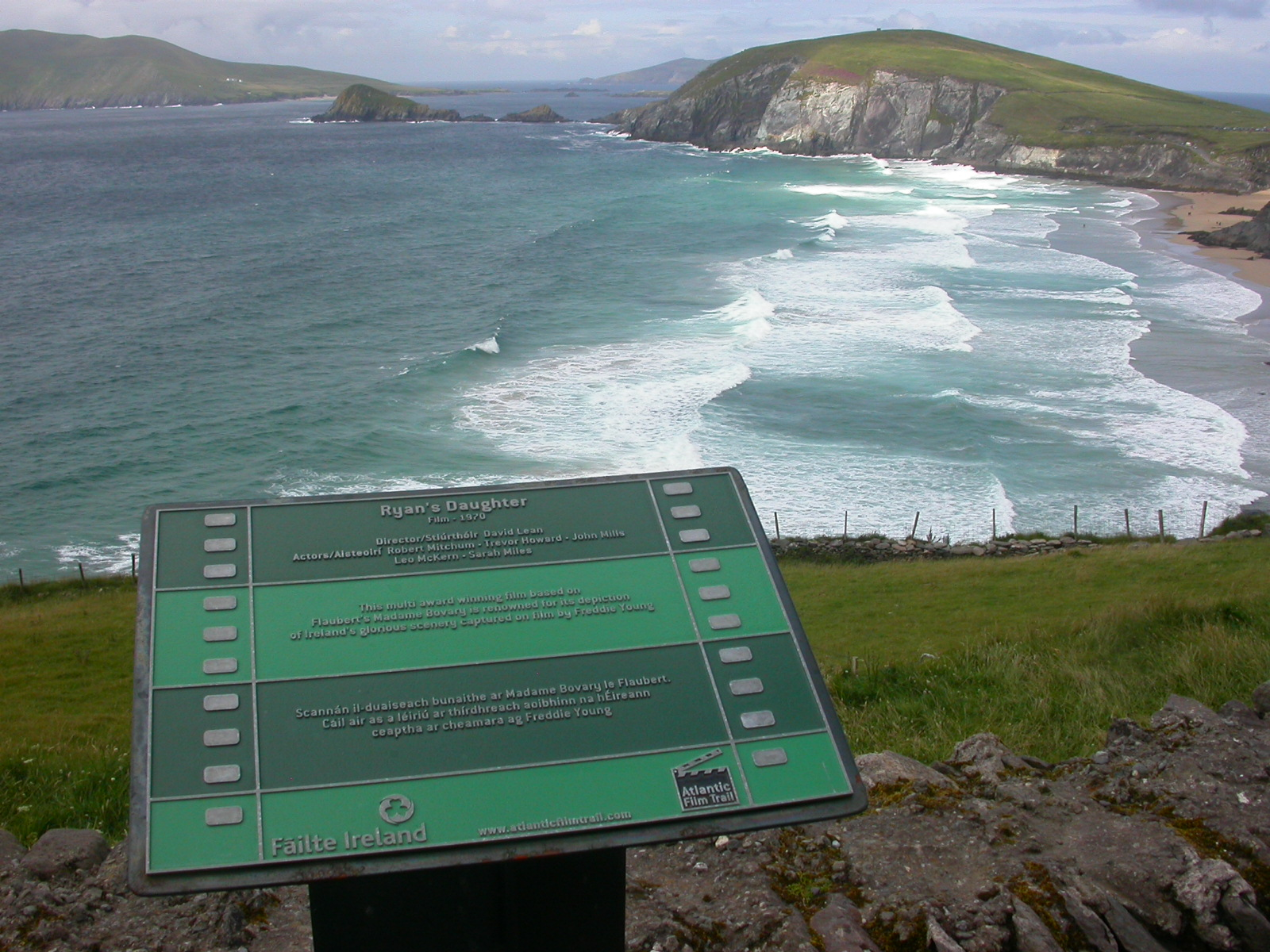 Slea Head, Dingle Peninsula, Ireland